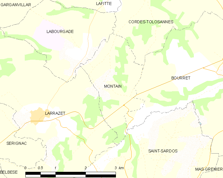 Map of French municipality Montaïn